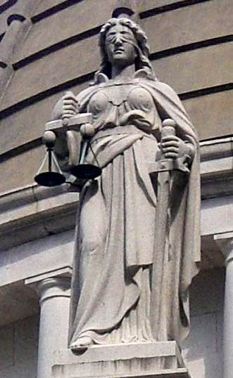 中環香港立法會大樓外觀zh:塑像